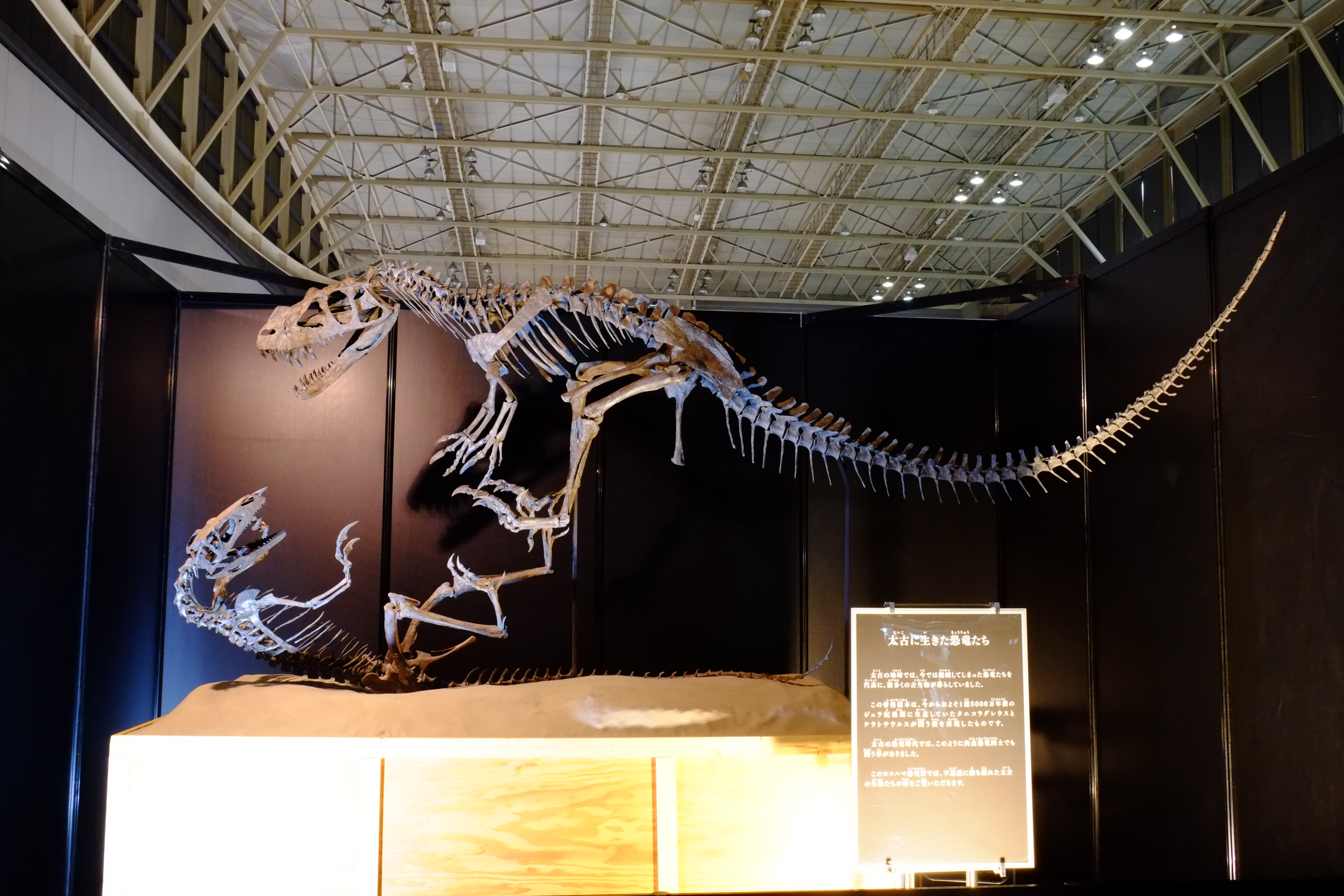 タニコラグレウスVSケラトサウルスが入り口に。